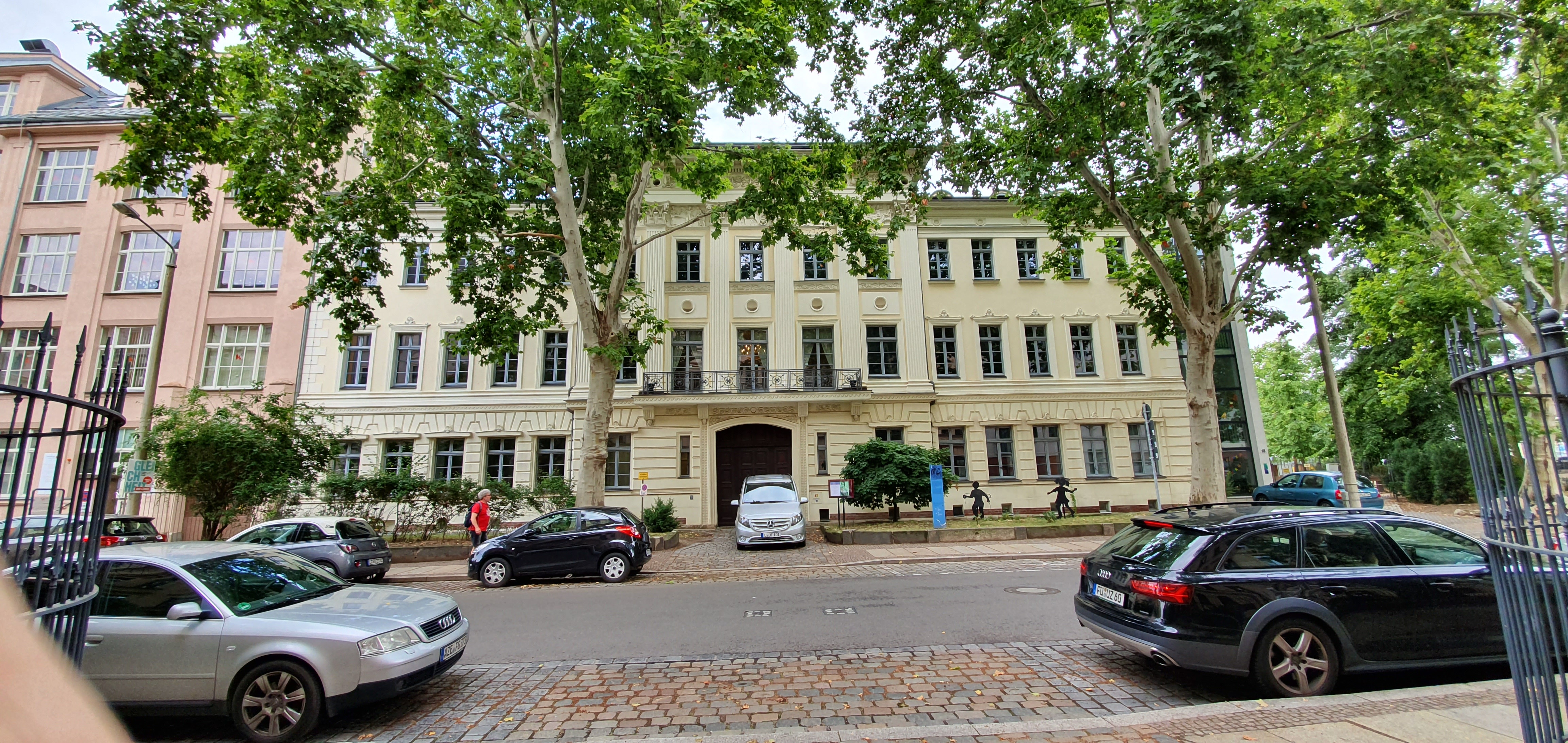 House of Robert Schumann at Leipzig, Robert Schumann and the pianist Clara Schumann (Wieck), spent their first years of married life together from 1840 to 1844-a time of much happiness and fruitful musical collaoboration. It was here that Robert Schumann wrote works Including his first symphony known as the Spring Symphony